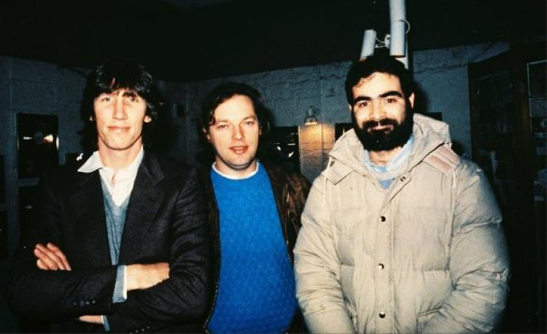 Zuccarelli con Roger Waters y David Gilmour (1970's)